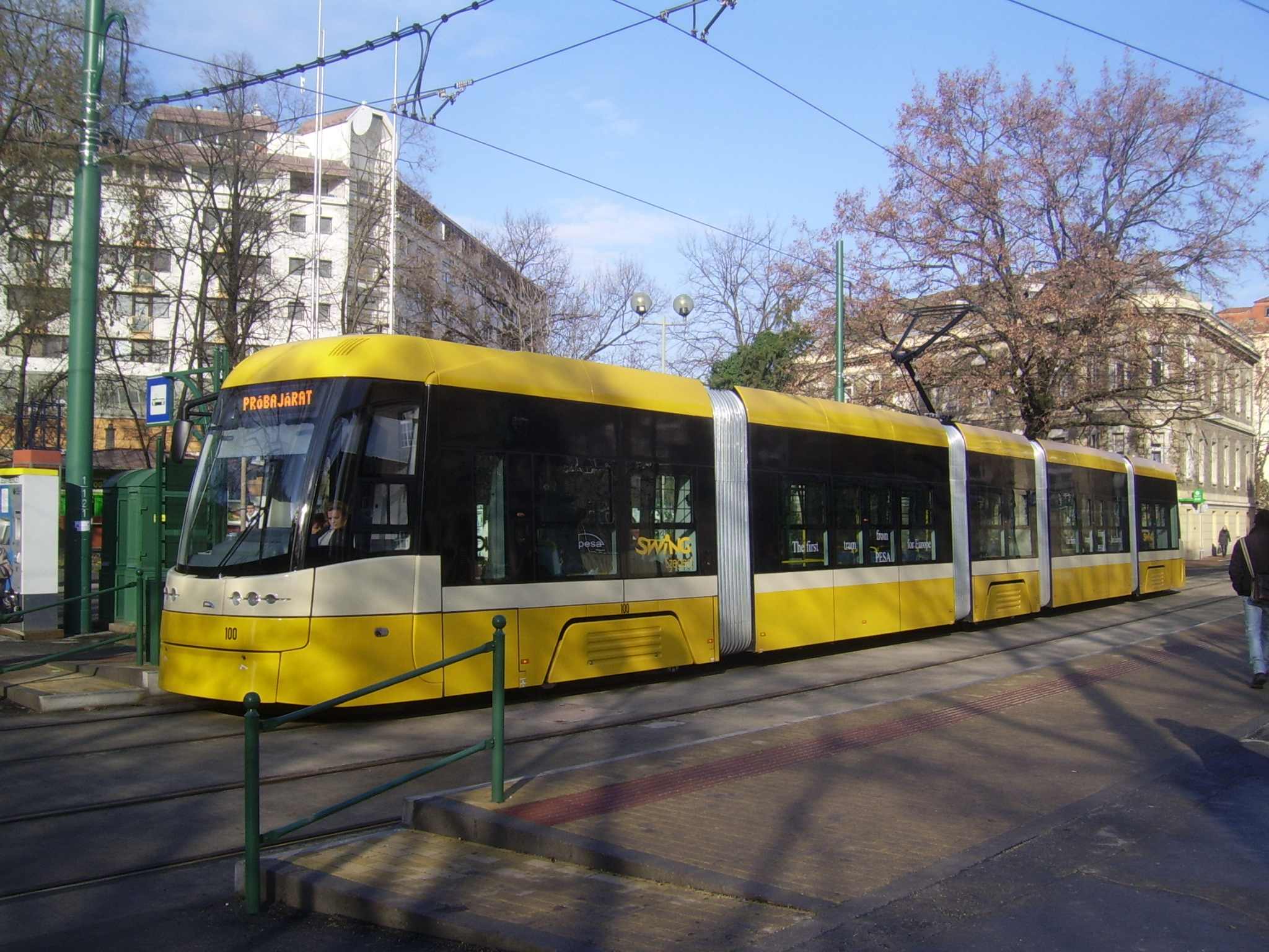 Trial tramcar on the downtown section of the tram line 1 in Szeged